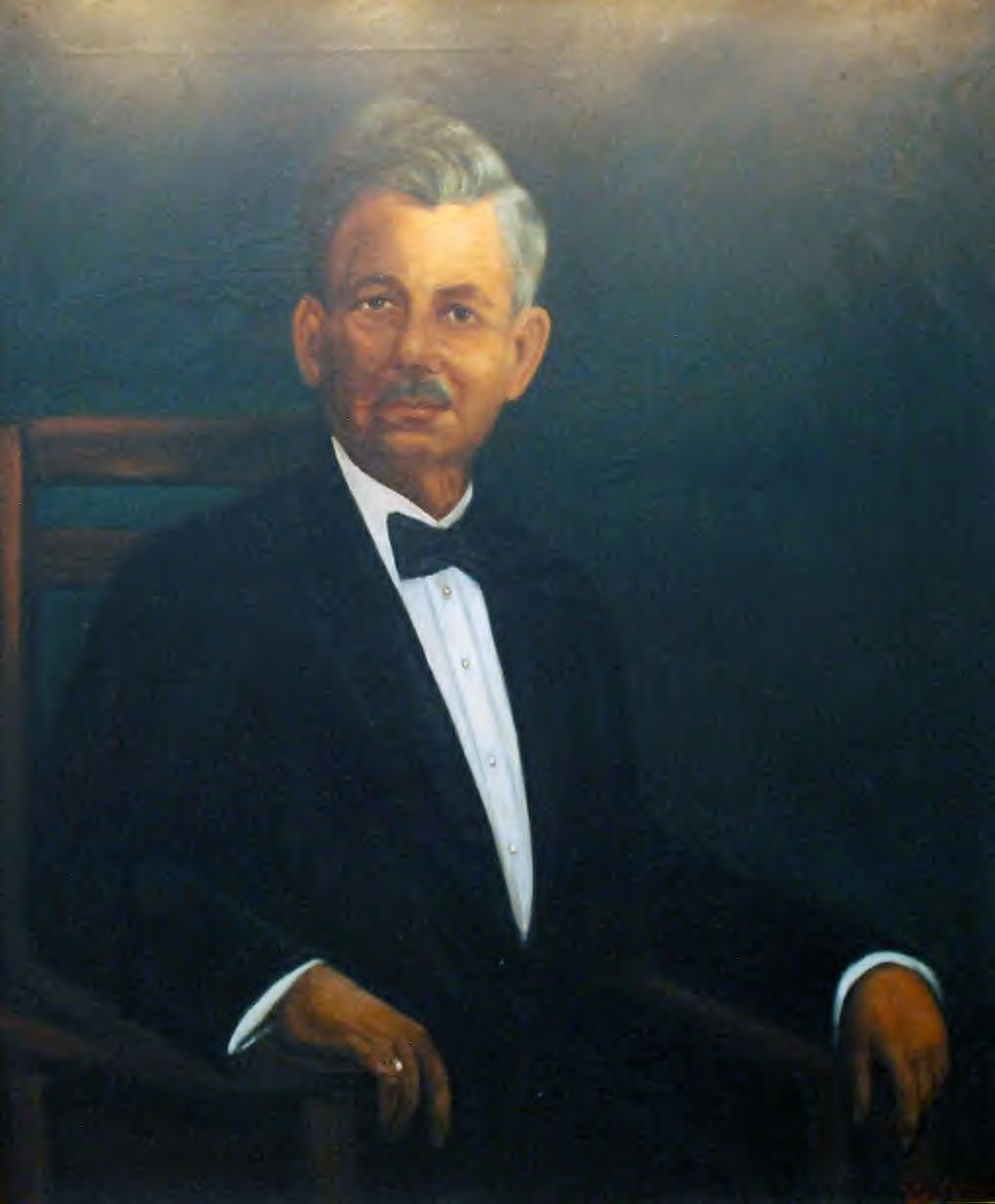 Painting of the Honorable Luis Sánchez Morales, Secretary of State of Puerto Rico.